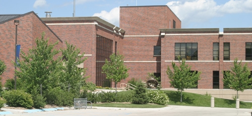 This is the Thom Leadership and Education Center on the campus of Concordia University, Nebraska.